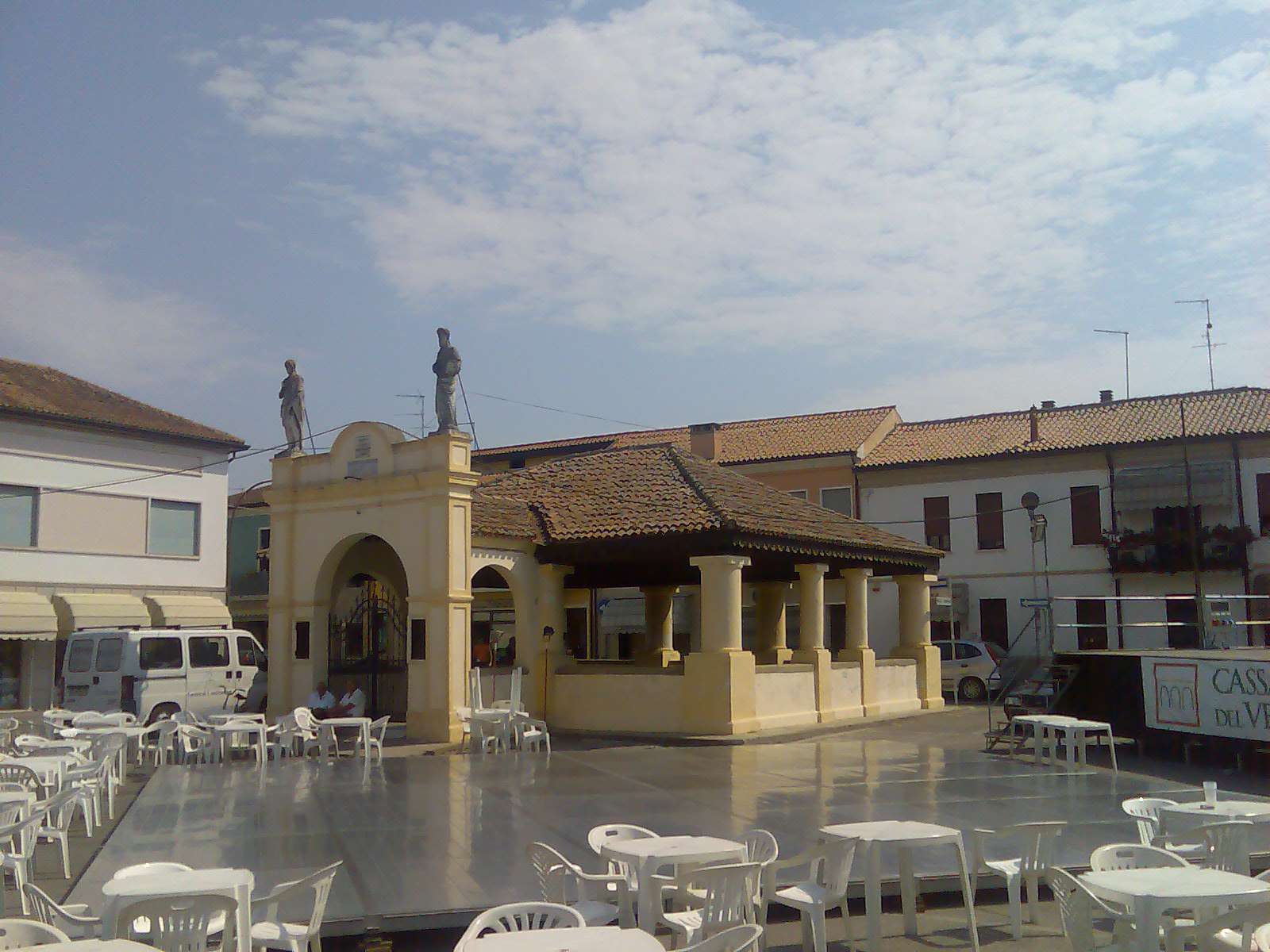 The Pavajon in Grignano Polesine, Rovigo, Italy.